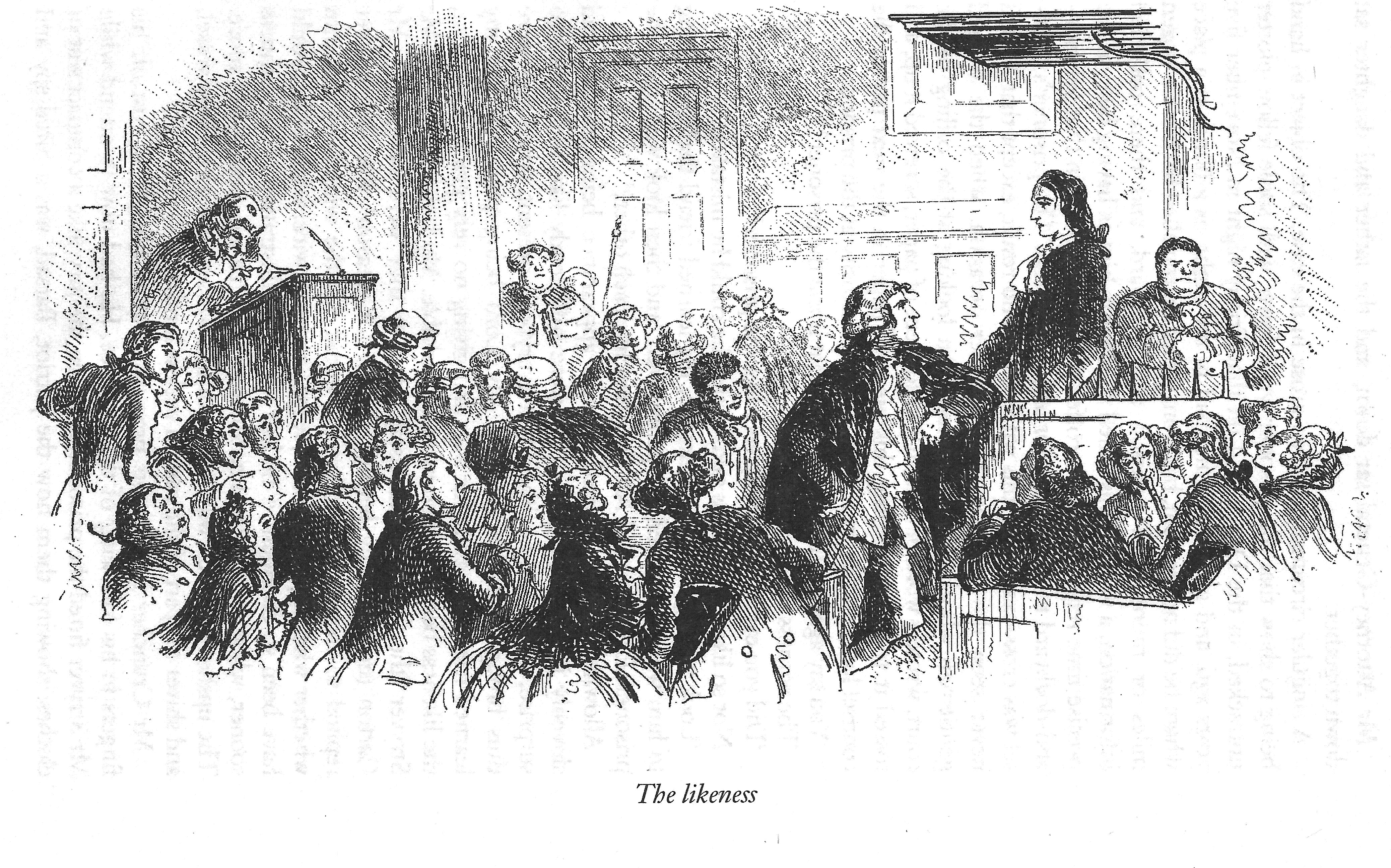 A Tale Od Two Cities, At the Court : The Likeness, by Phiz